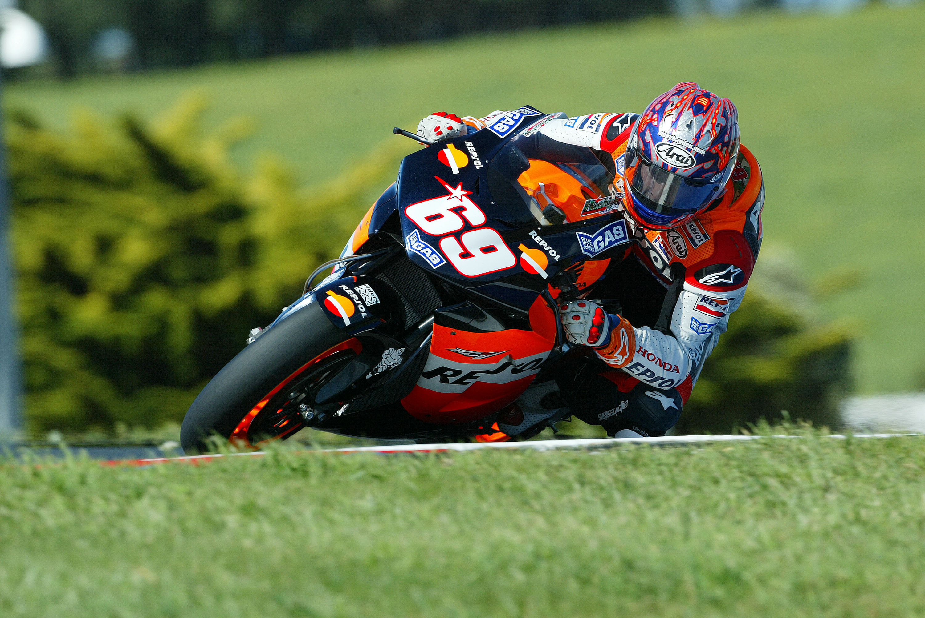 Nicky Hayden, riding his Repsol Honda at the 2004 Australian Grand Prix.